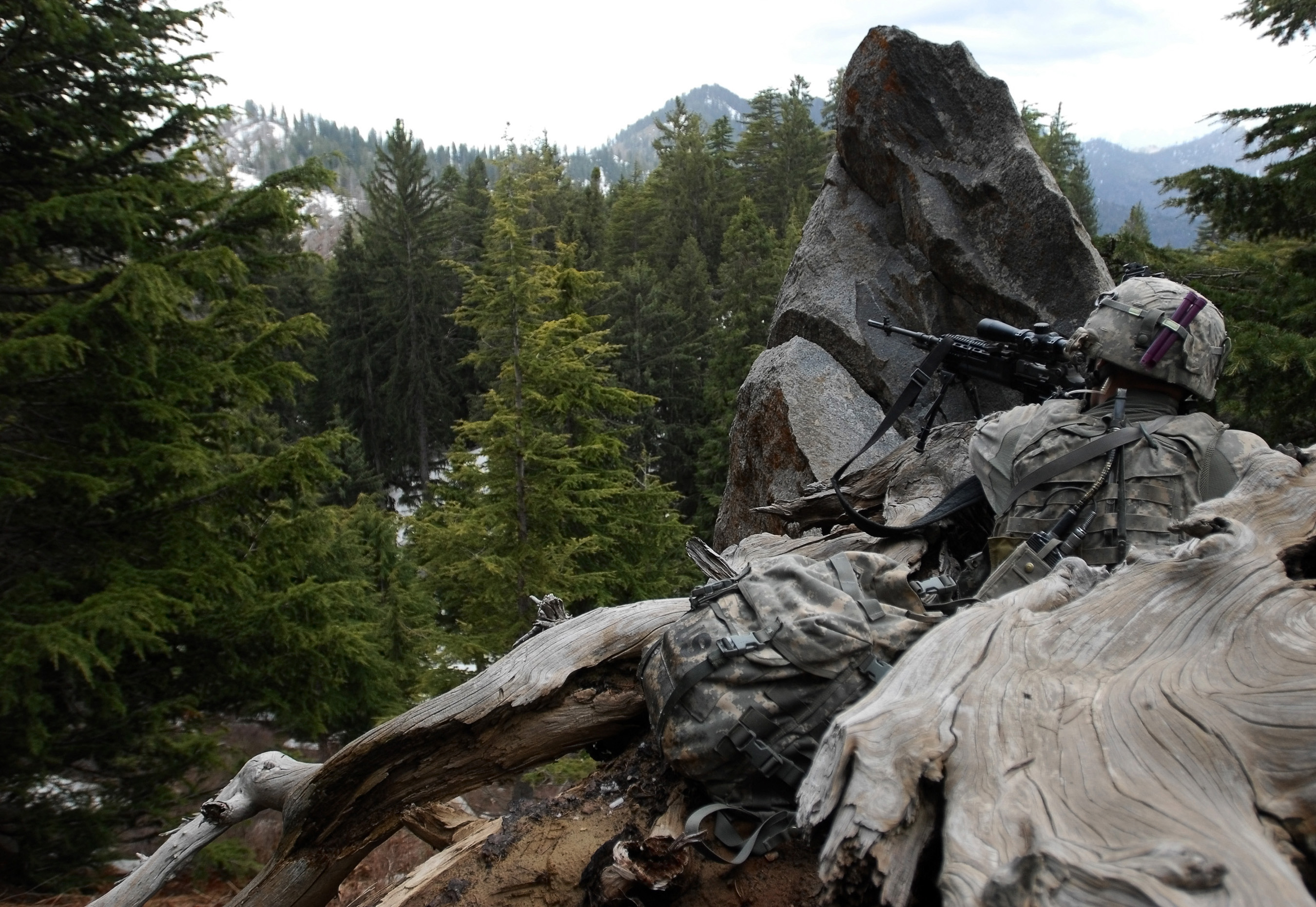 Cpl. Thomas Bourget, assigned to Charlie Company, 1st Infantry Division, observes the mountain landscape opposite of his position that surrounds the Korengal Valley, Afghanistan, April 21, 2009. Photo by Sgt. Matthew Moeller